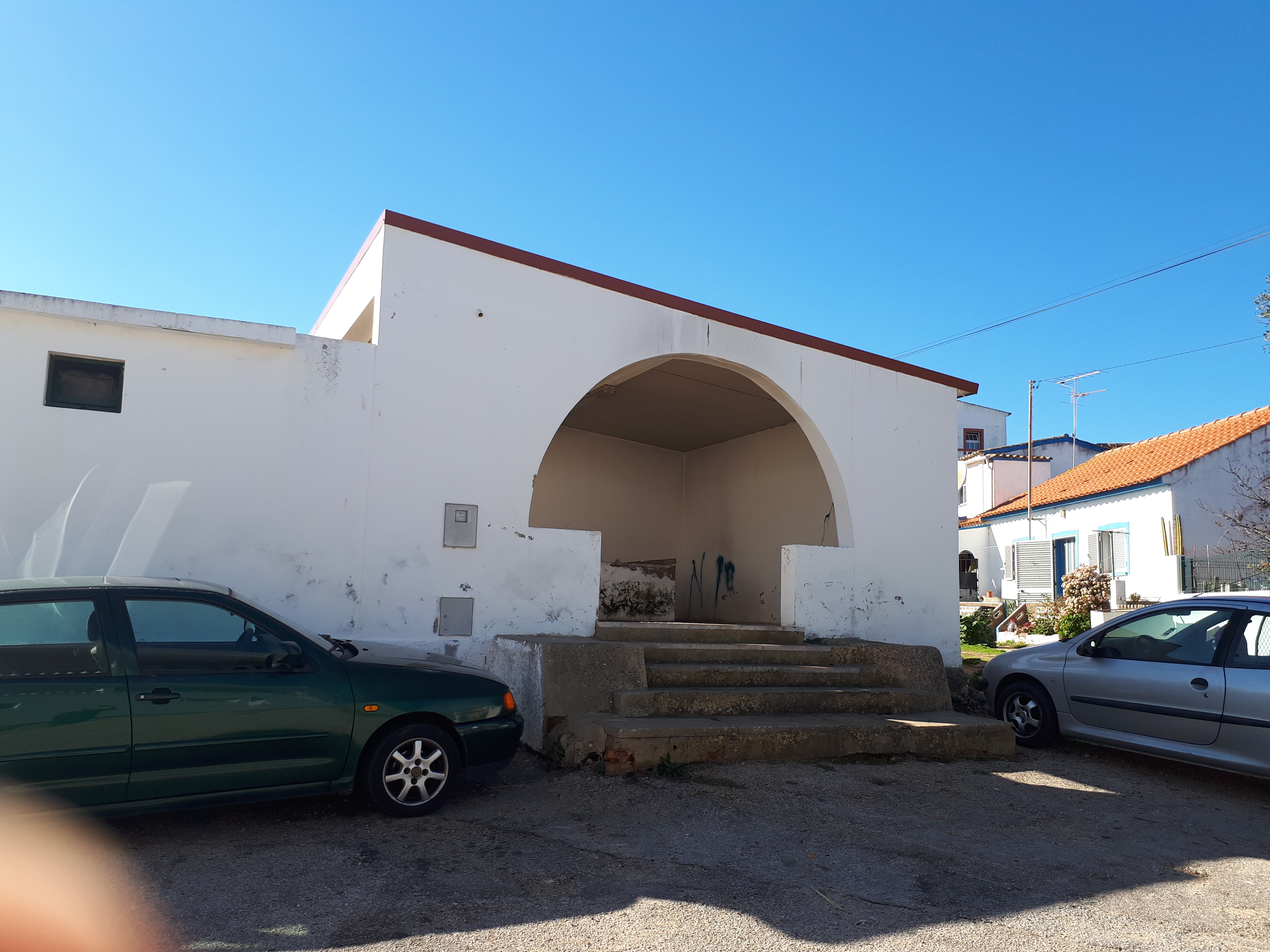 The public wash house in Almadena in Luz Freguesia, Algarve, Portugal